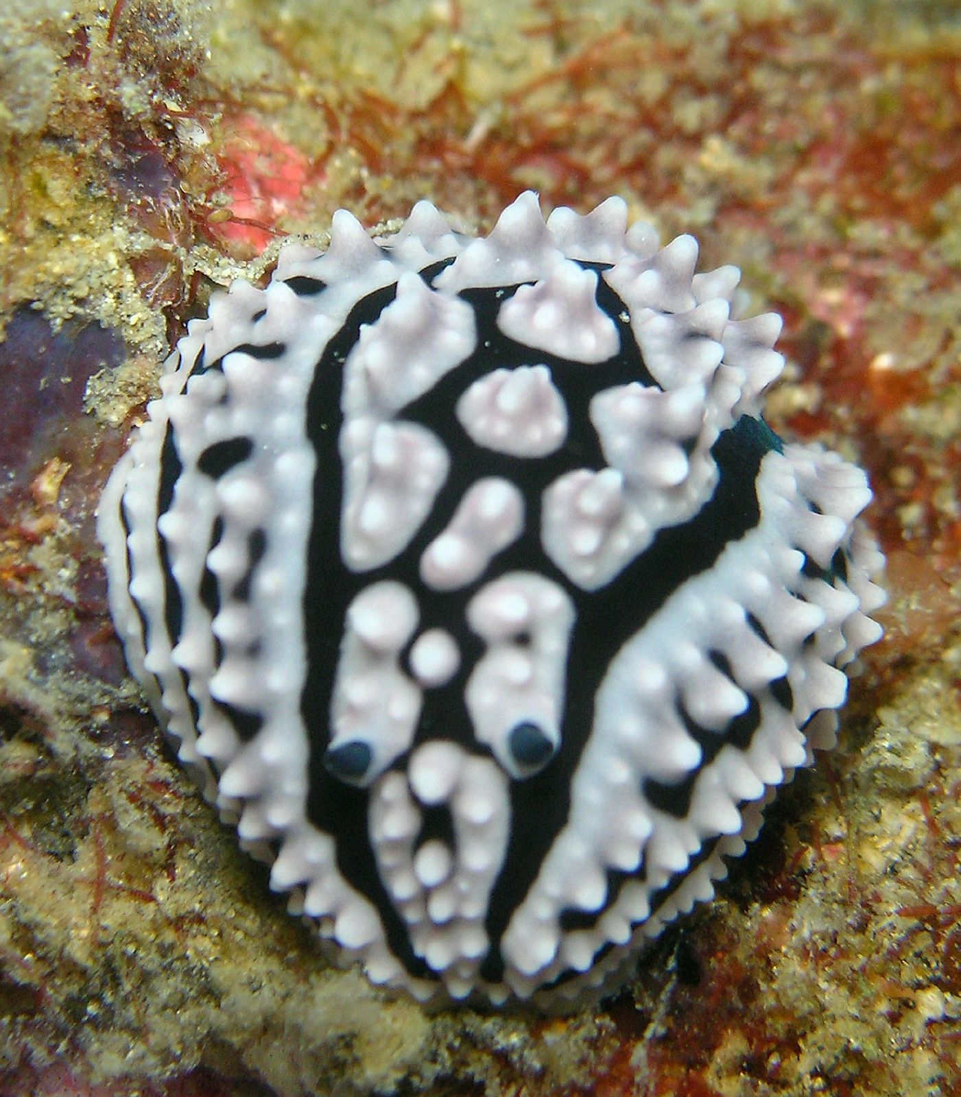 This is in fact Phyllidiella zelanica, not P. pustulosa.